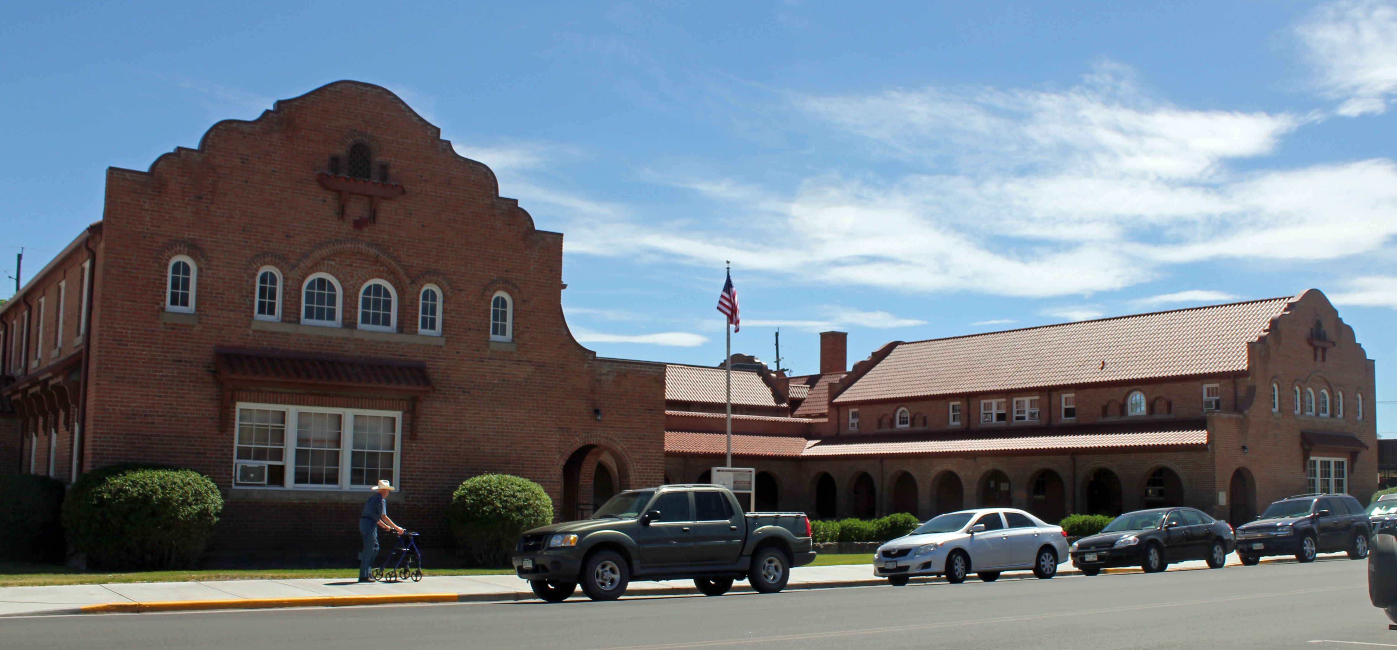 The Alamosa County Courthouse, located at 702 4th Street in Alamosa, Colorado. The property is listed on the National Register of Historic Places.